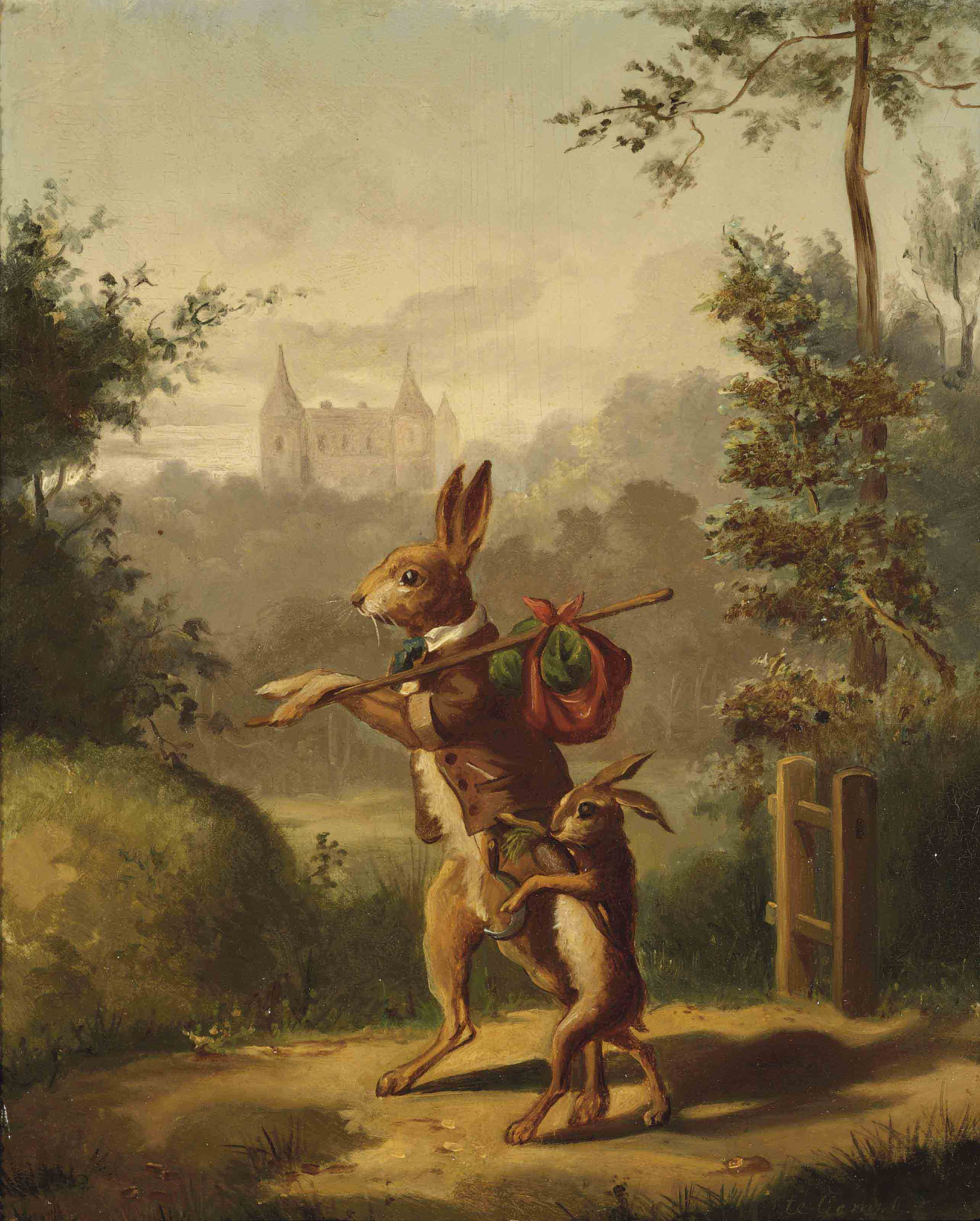 Two hares with a knapsack, a castle beyond